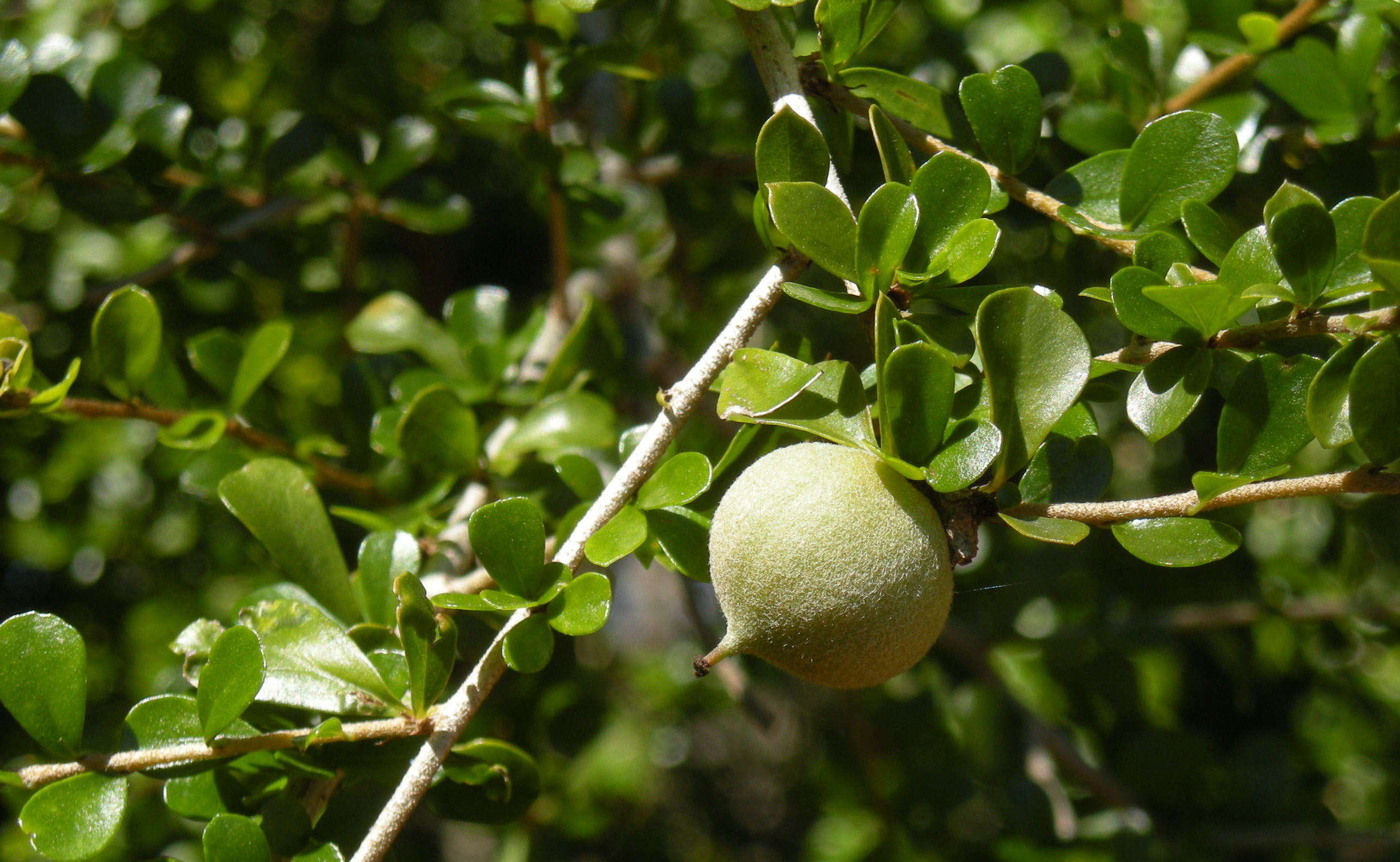 Citriobatus spinescens fruit, Mount Archer National Park, Rockhampton